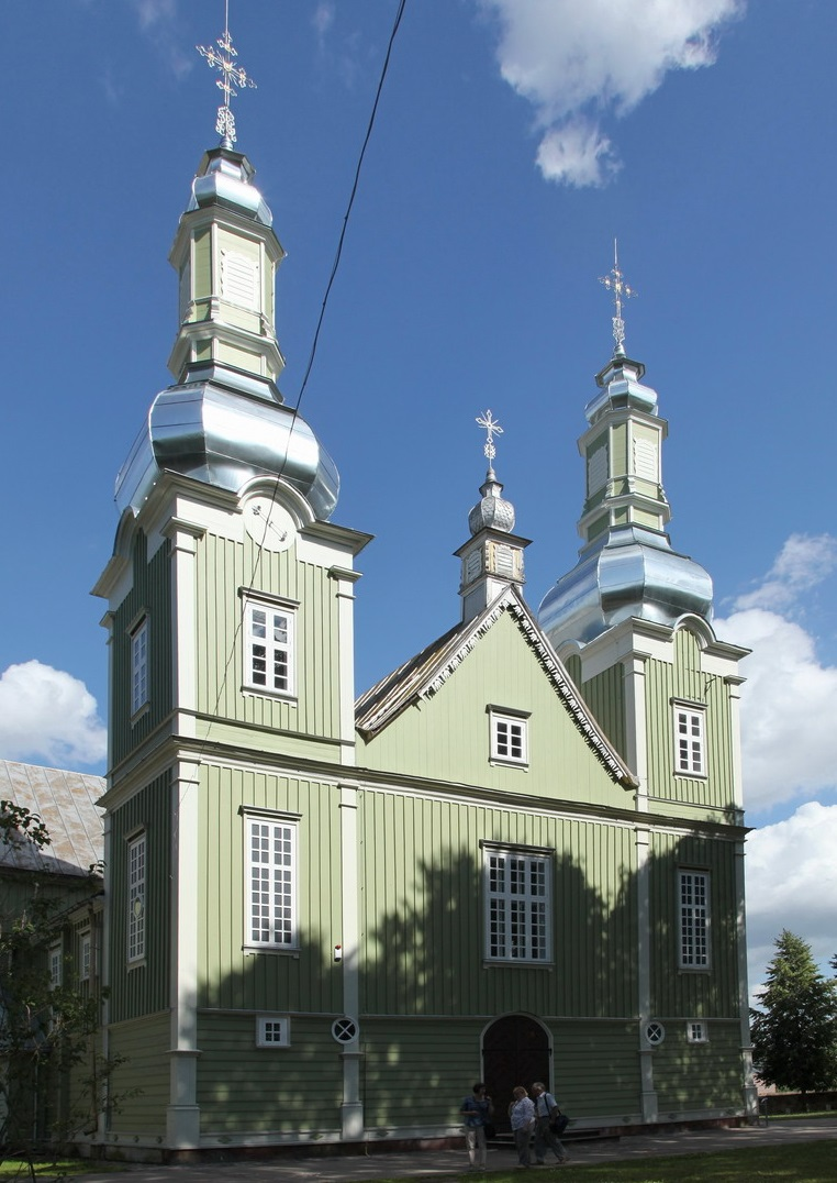 Prienai Church